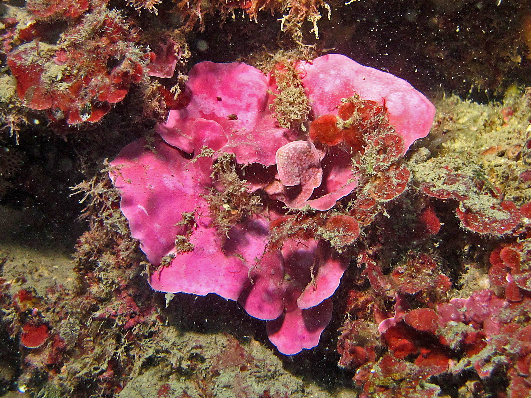 Mesophyllum expansum. Levanto, Italy